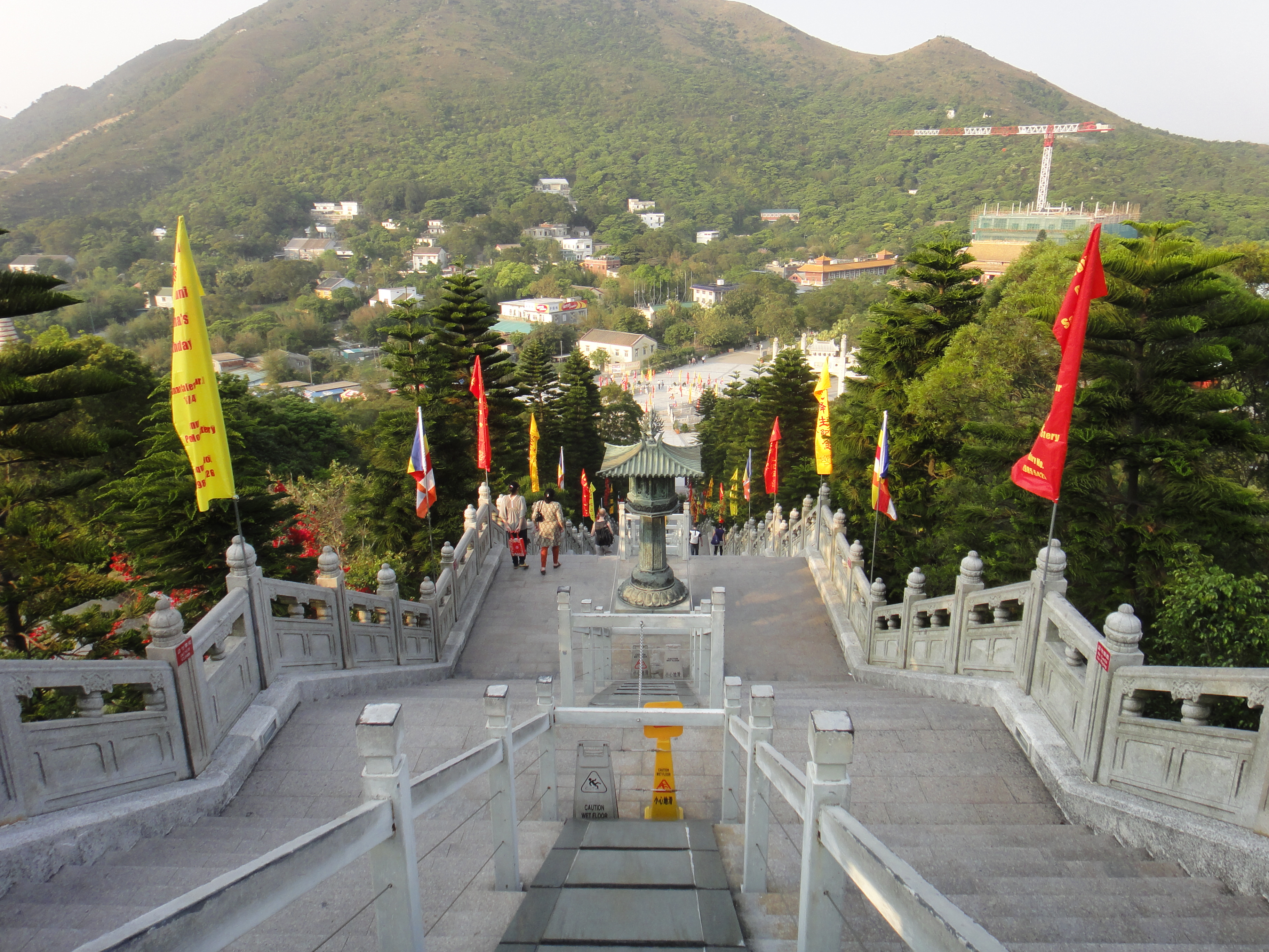 Tian Tan Buddha